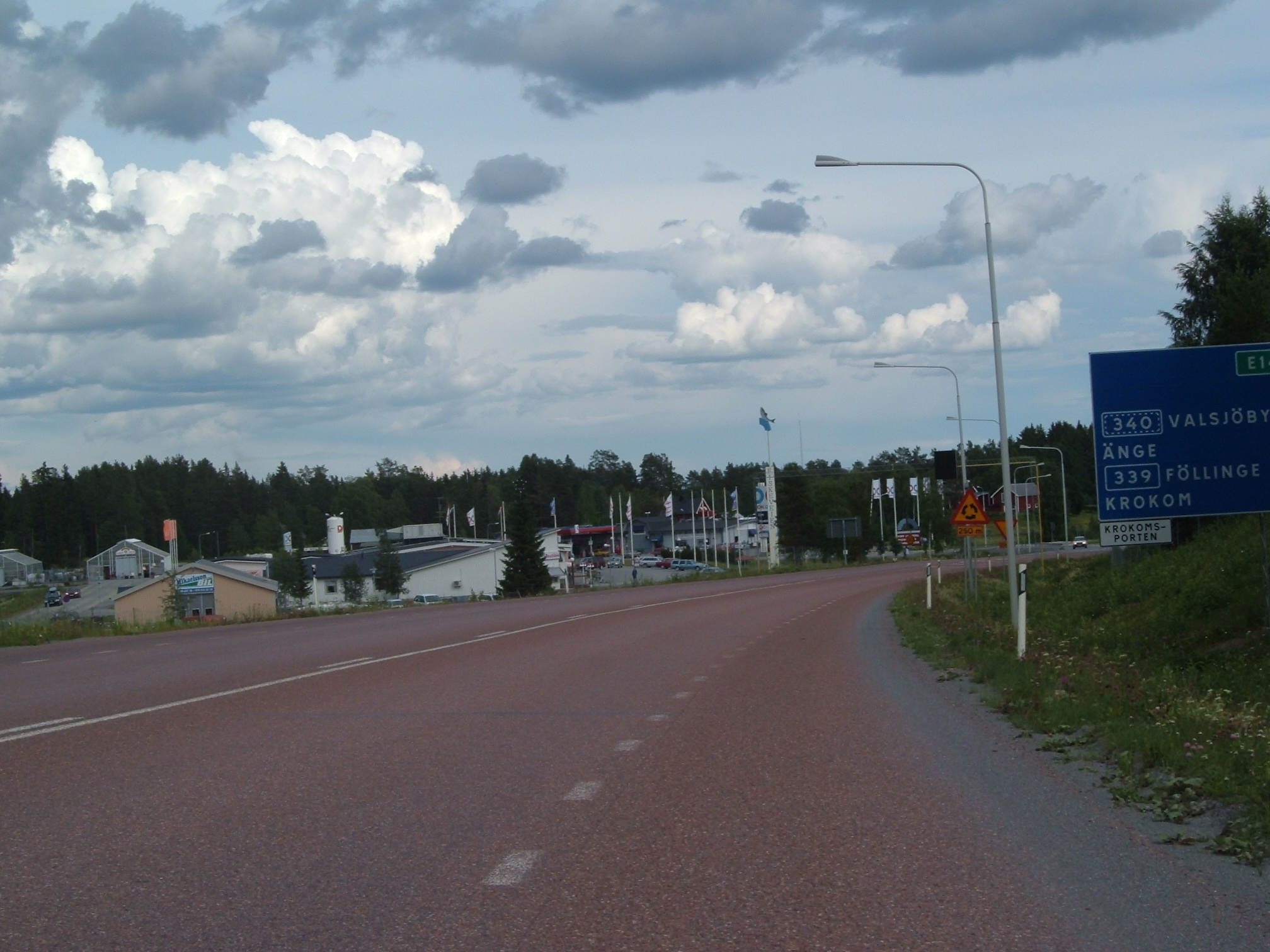 The roundabout of E14 and county road 339 in Krokom, Sweden